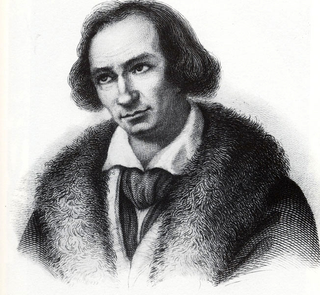 Georg Friedrich Daumer, copperplate by Appold